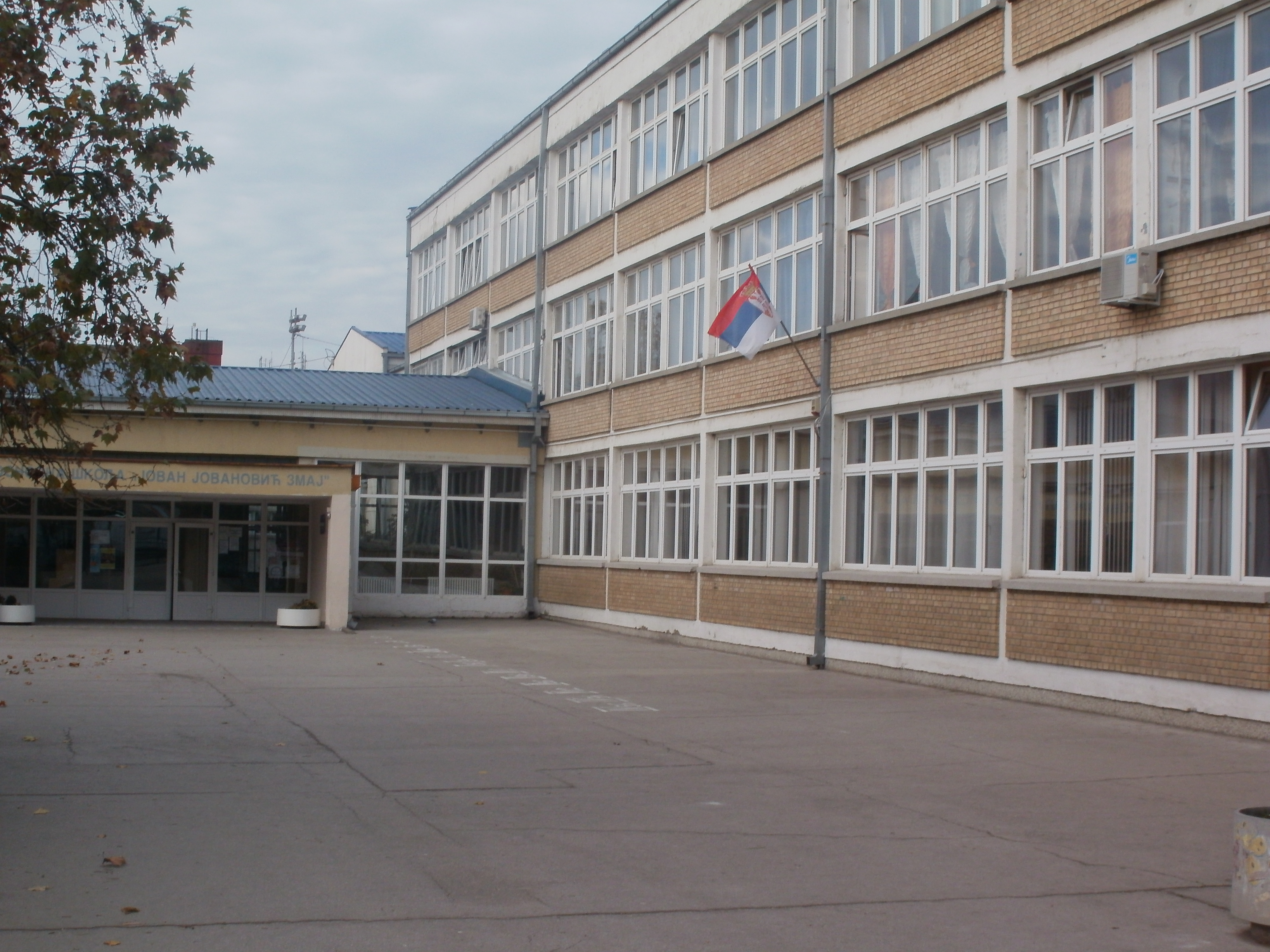 О.Ш Јован Јовановић Змај